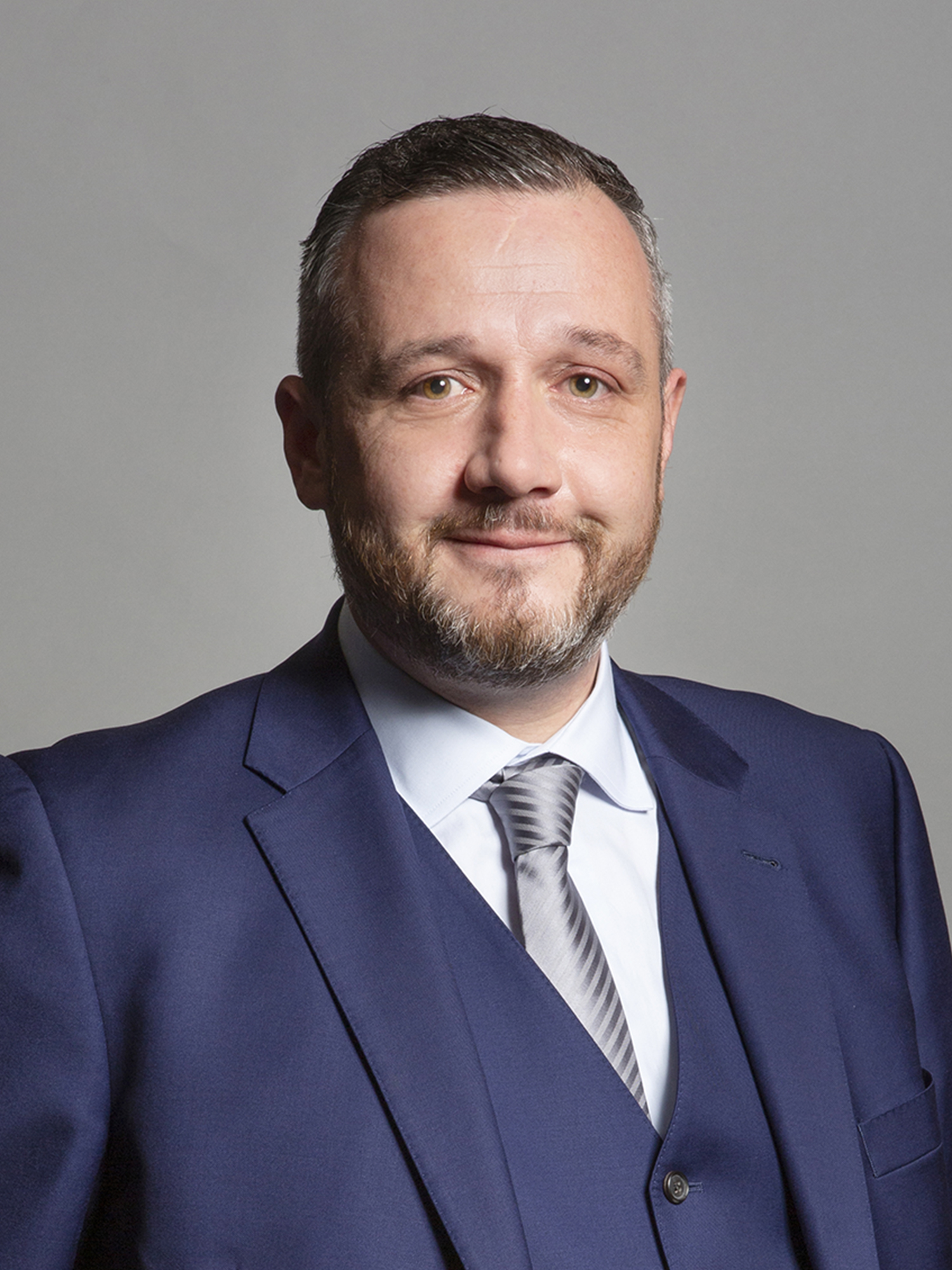 Official portrait of Steven Bonnar MP 3×4 portrait of Steven Bonnar